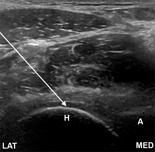 Ultrasound-guided hip joint injection by anterolateral approach. The needle is introduced from a lateral and anterior approach, to rest on the femoral head (arrow). A, acetabulum; H, femoral head; N, femoral neck; LAT, lateral; MED, medial.